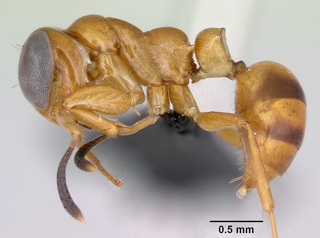 Profile view of ant Santschiella kohli specimen casent0004701.